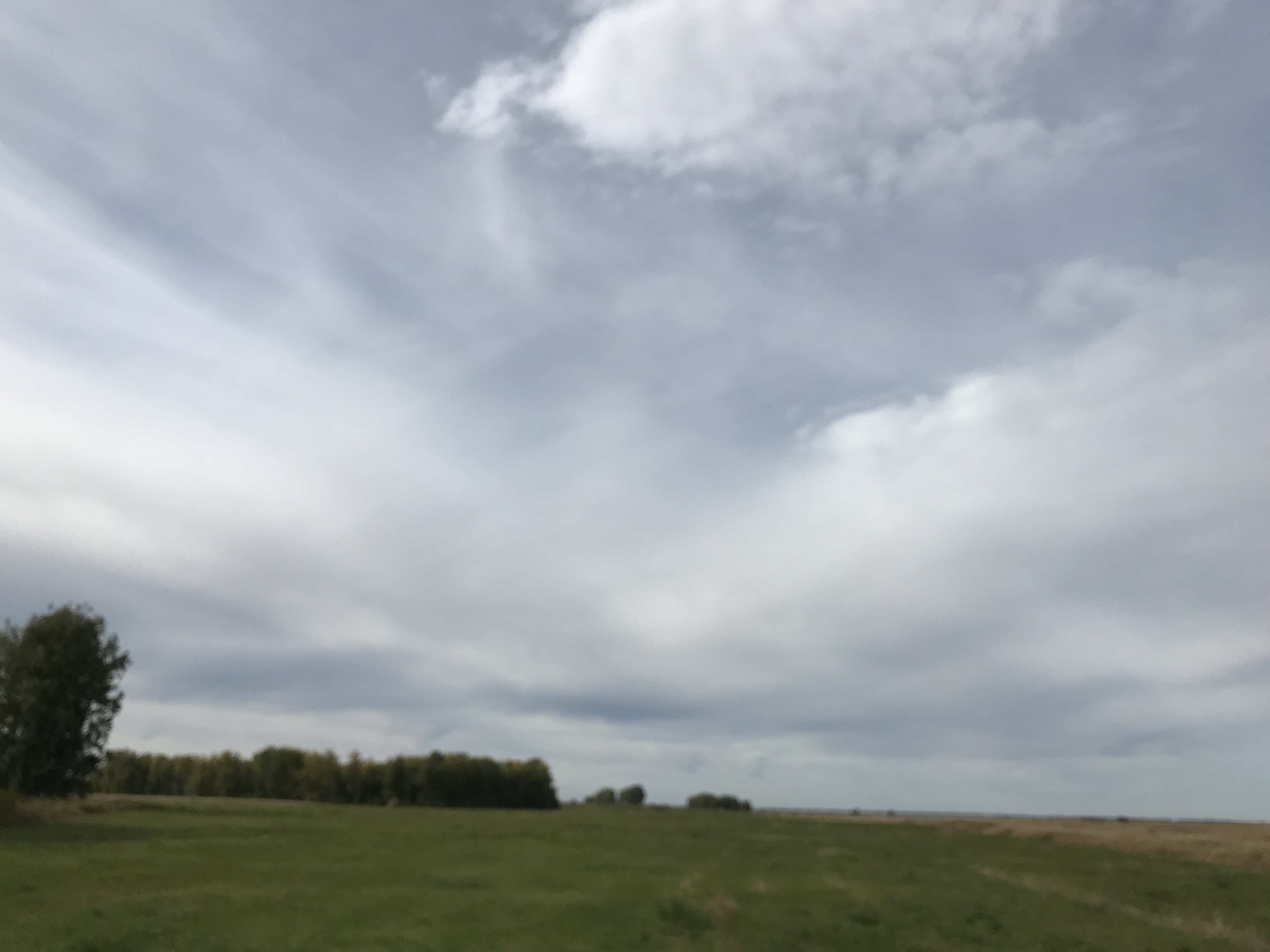 Oravka. Cemetery view.